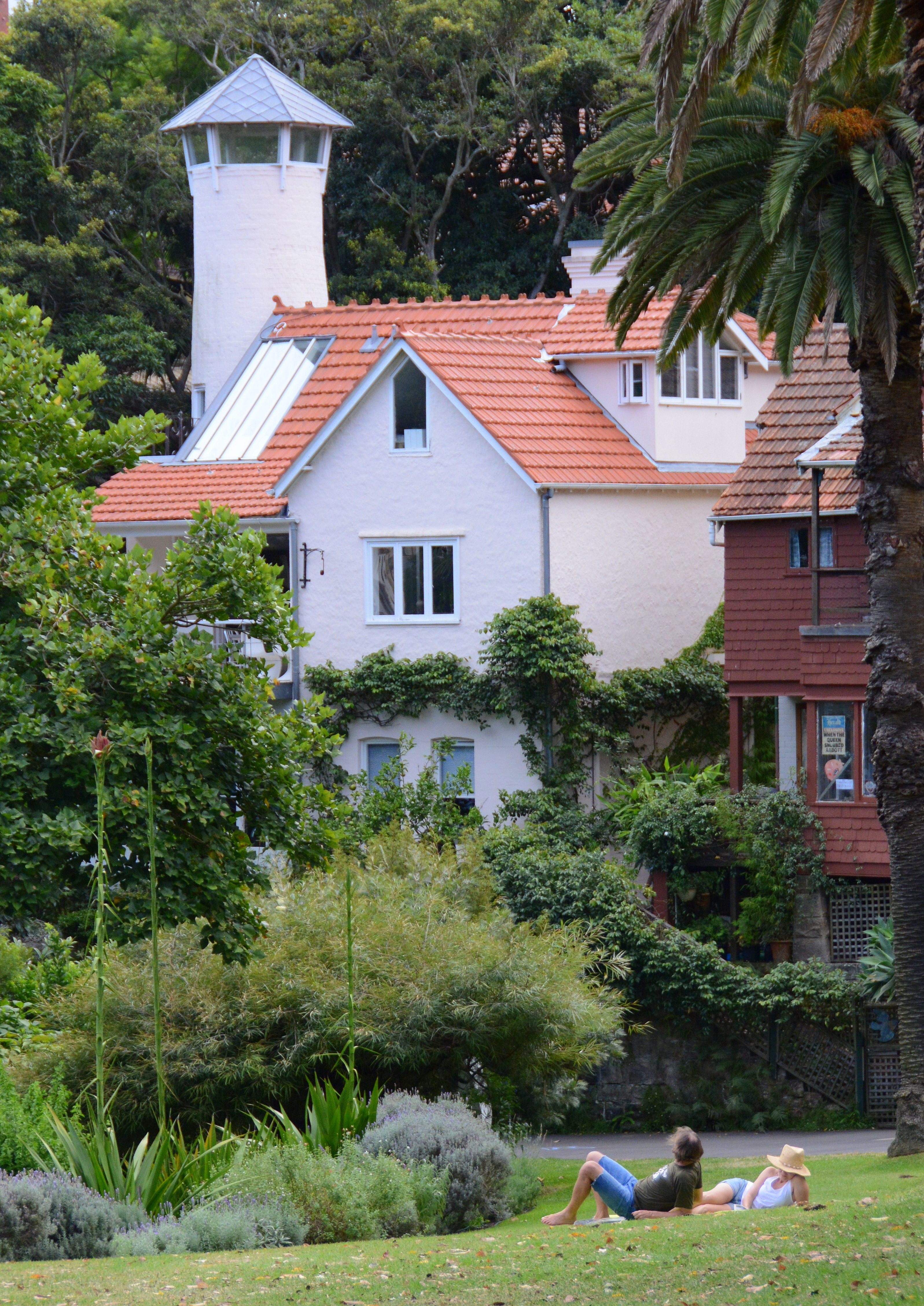 Former Brett Whiteley House seen from Clark Park, Lavender Bay, Sydney